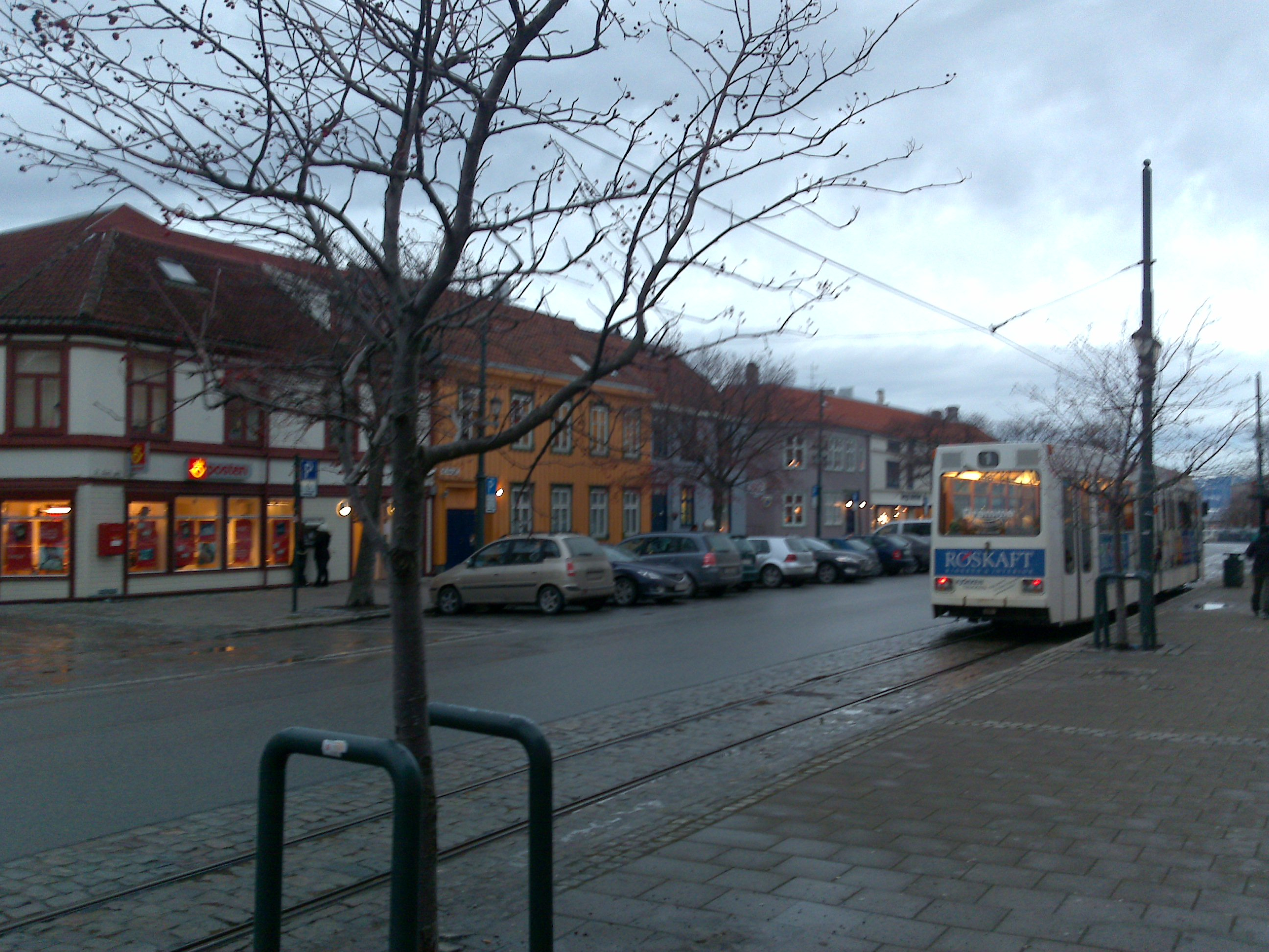 Picture from St. Olavs gate in Trondheim, Norway.